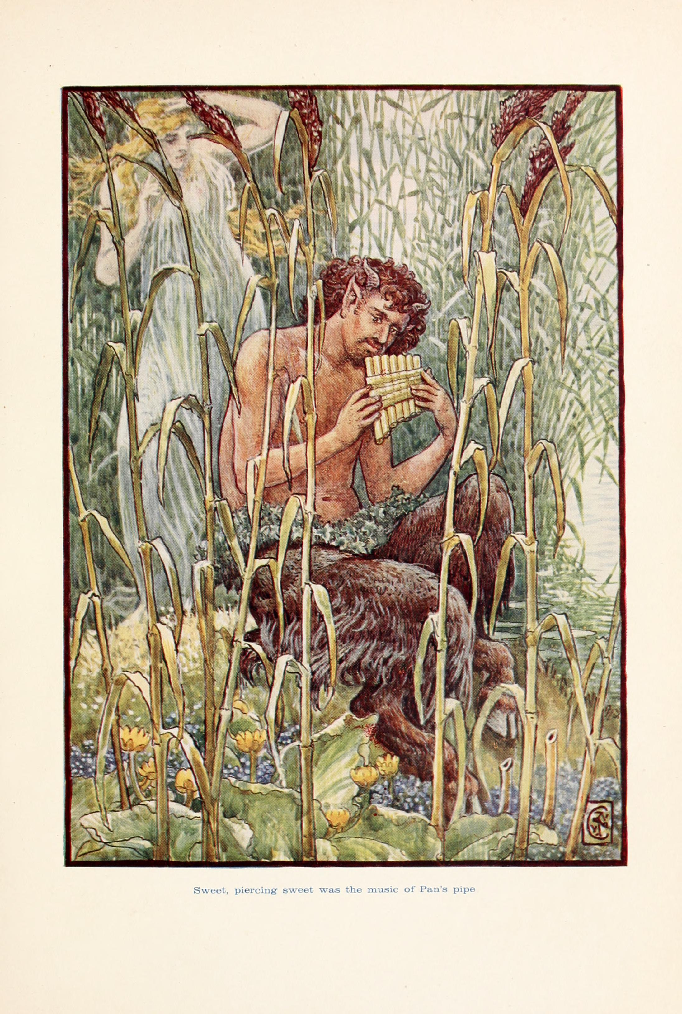 These stories from the history of ancient Greece begin with myths and legends of gods and heroes and end with the conquests of Alexander the Great. The book is accessible and well organized, but it is considerably more detailed than some other introductory texts. It covers Greek history from the age of Mythology to the rise of Alexander, but because of its length we do not recommend it for 5th grade or younger. It is an excellent reference, thoroughly engaging, and a good candidate for a somewhat older student's first foray into Greek history.